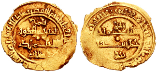 Italy, Sicily. Normans. Robert Guiscard, as Count of Calabria and Sicily, and Duke of Apulia. 1059-1085 AD. AV Quarter Dinar (Tarì) (18mm, 0.95 g). Palermo mint. Struck 466 AH (1072 AD). Kalima and Quran 9:33 Kufic legend: "By order of Robert the duke, the very glorious lord of Sicily," in four lines across field; "Bismillah struck was this dinar in [Siqilliyyah in the year six and] sixty and four hundred" around. Spahr 1; MEC 66. VF